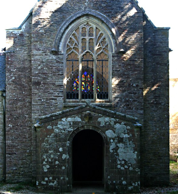 Tregaminion Chapel This closer view of the front of the chapel shows the light from the stained glass eastern window shining through the Chapel. This Chapel was consecrated in 1816 and was commissioned by William Rashleigh as a private chapel and dedicated to his wife Rachel who died while it was being built. William Rashleigh however remarried in 1817. It is now part of the Tywardreath Vicarage and regular Sunday services are held here.